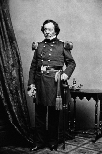 Benjamin Louis Eulalie de Bonneville (April 14, 1796 – June 12, 1878)